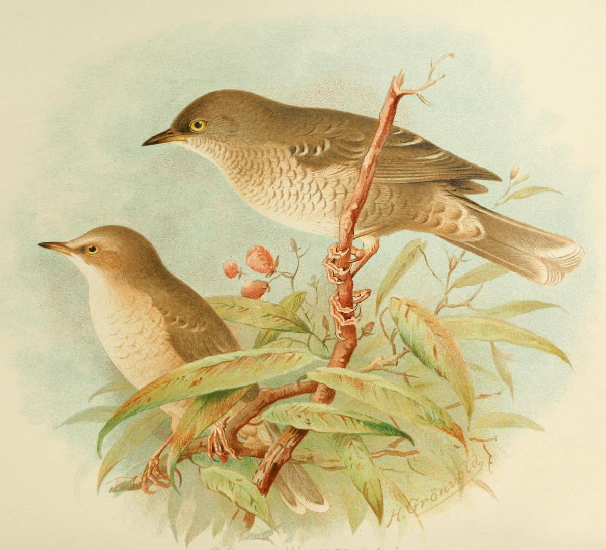 An illustration of a male (above) and a female (below) Barred Warbler by Henrik Grönvold